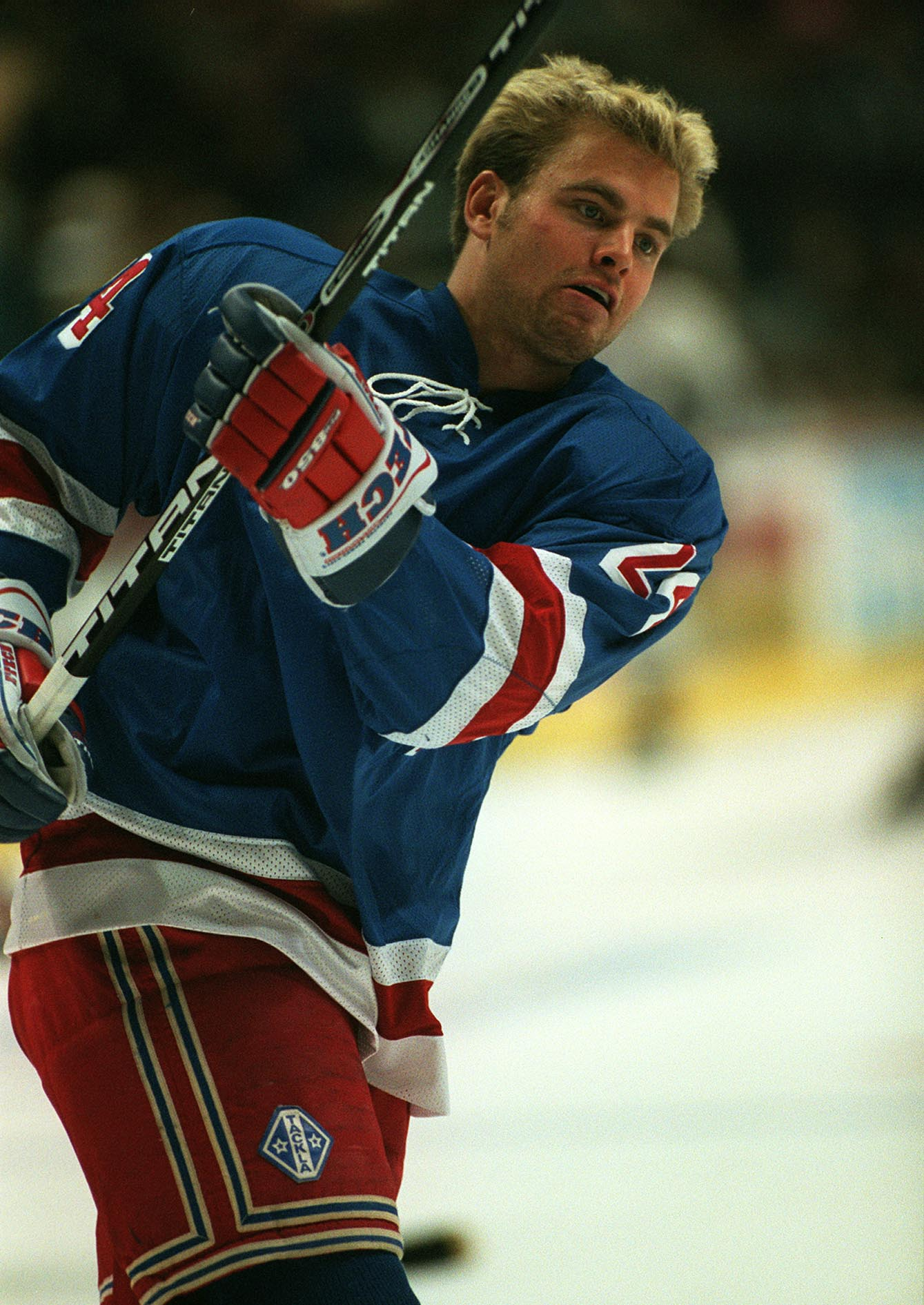 Niklas Sundström, playing for the New York Rangers in an NHL game in Vancouver.